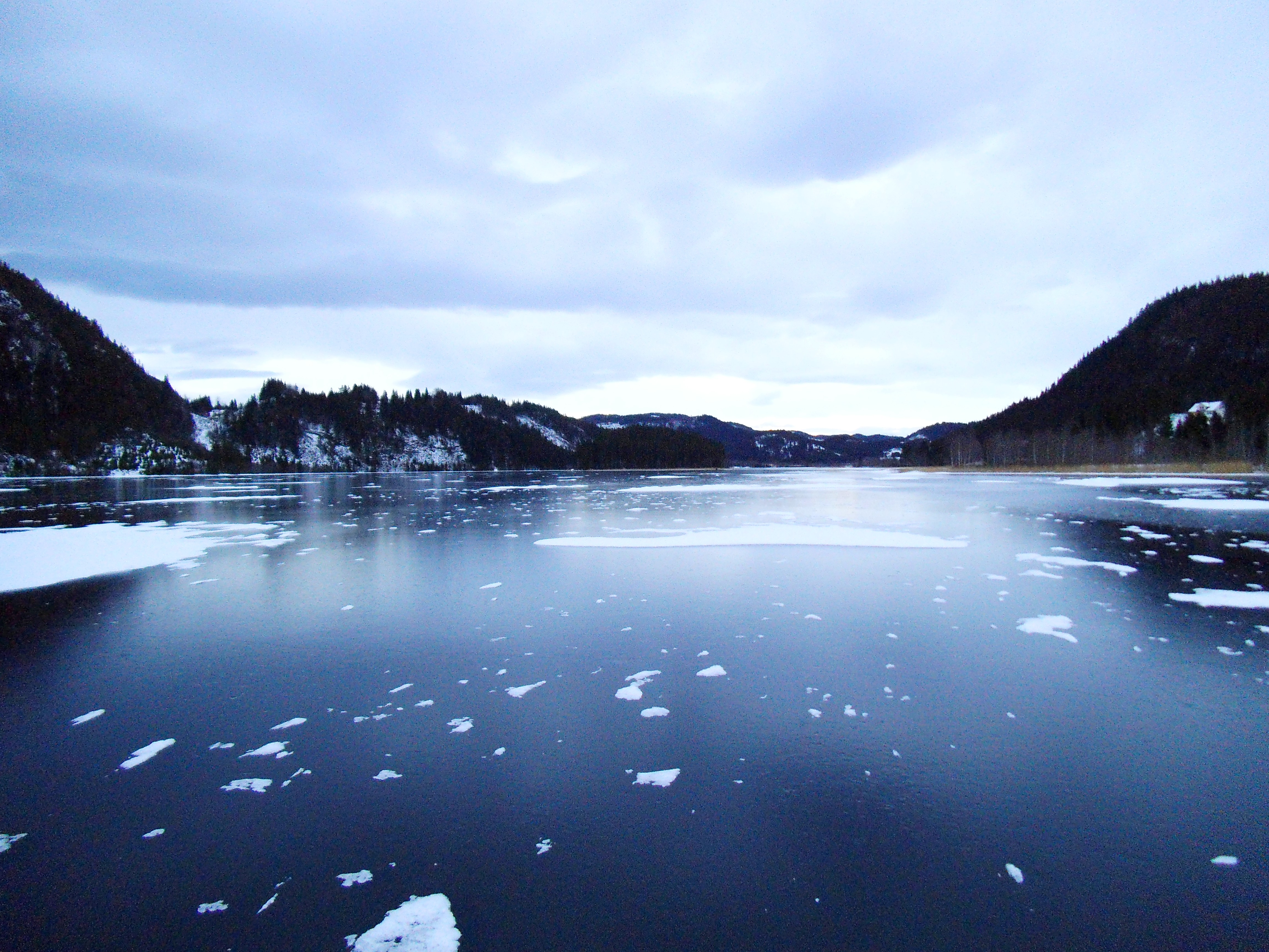 Gaustadvatnet. A lake in Melhus. North part of the lake. "Holmen" (a small island) can be seen in the background. It's winter and the lake is frozen.